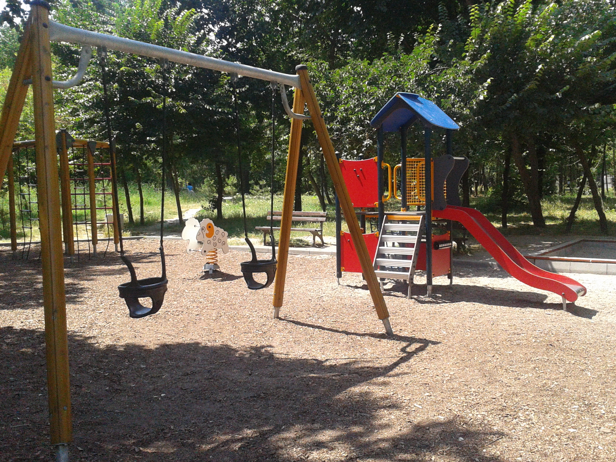 Lauta Park - Plovdiv